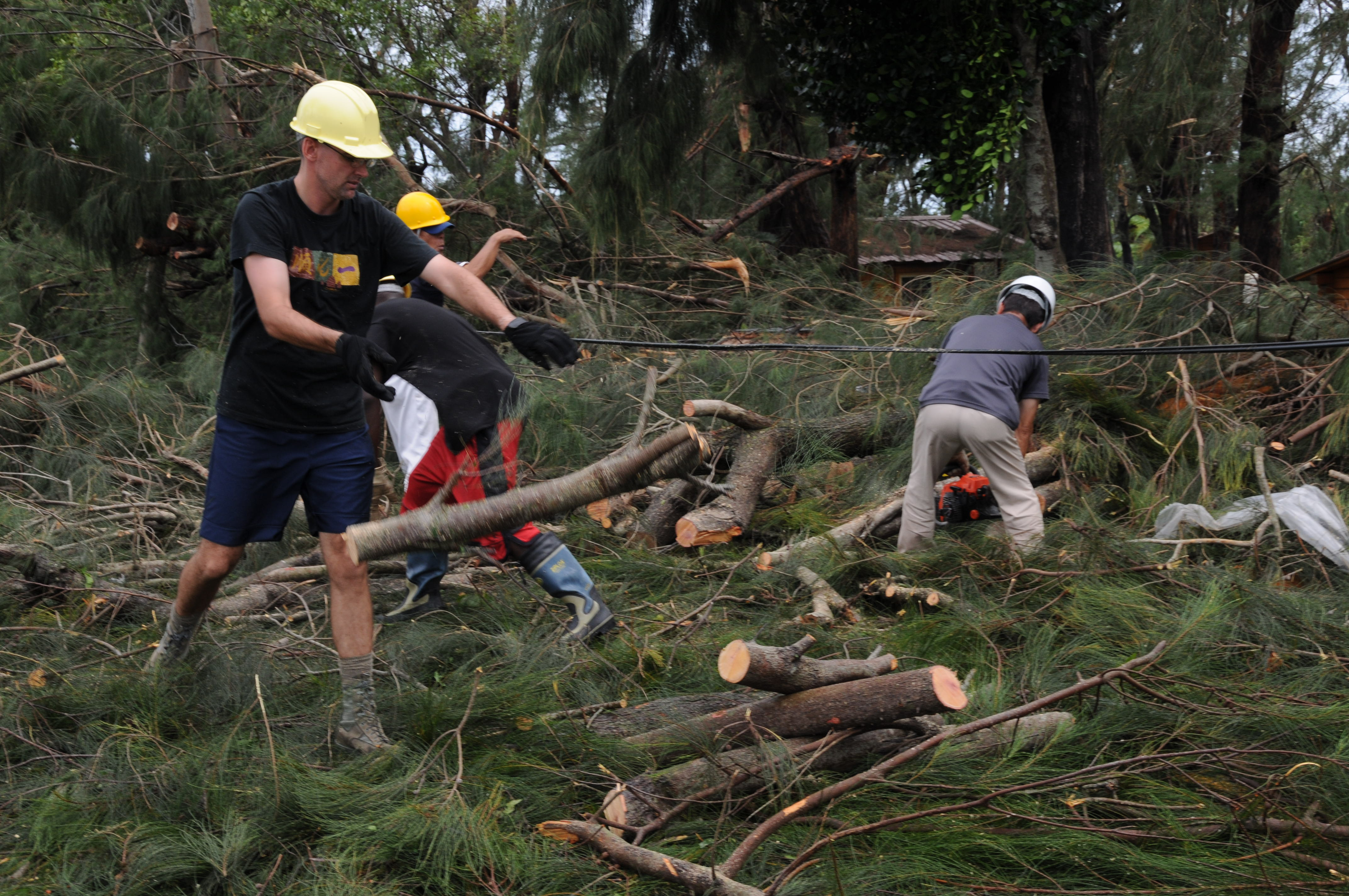 Staff members of the Okuma Resort remove debris from the main road after Typhoon Kompasu Aug. 31, 2010. Typhoon Kompasu slammed into the Okuma Recreation Area in northern Okinawa and is closed until further notice.